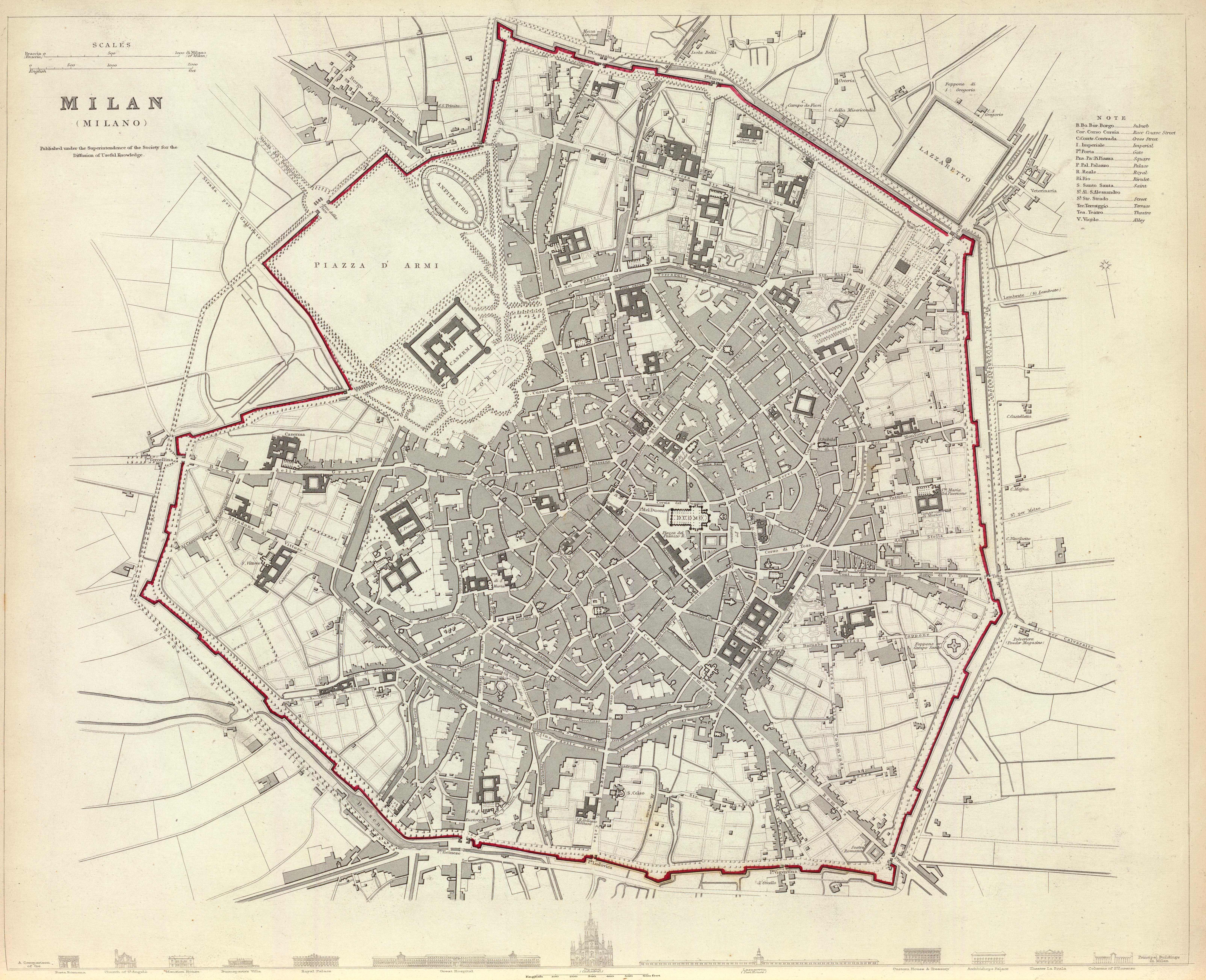 Milan Italy 1832